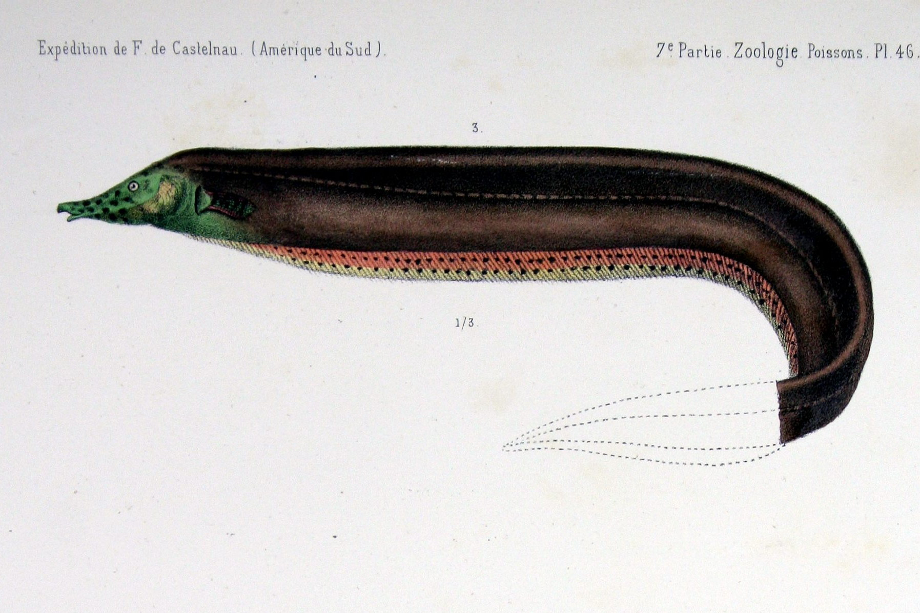 Rhamphichthys pantherinus Cast. = Rhamphichthys pantherinus Castelnau, 1855